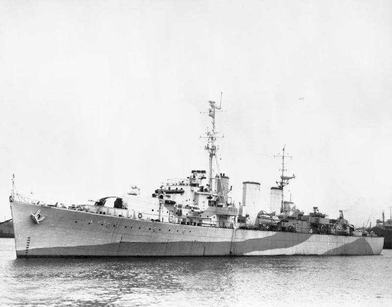 HMS APOLLO moored in port